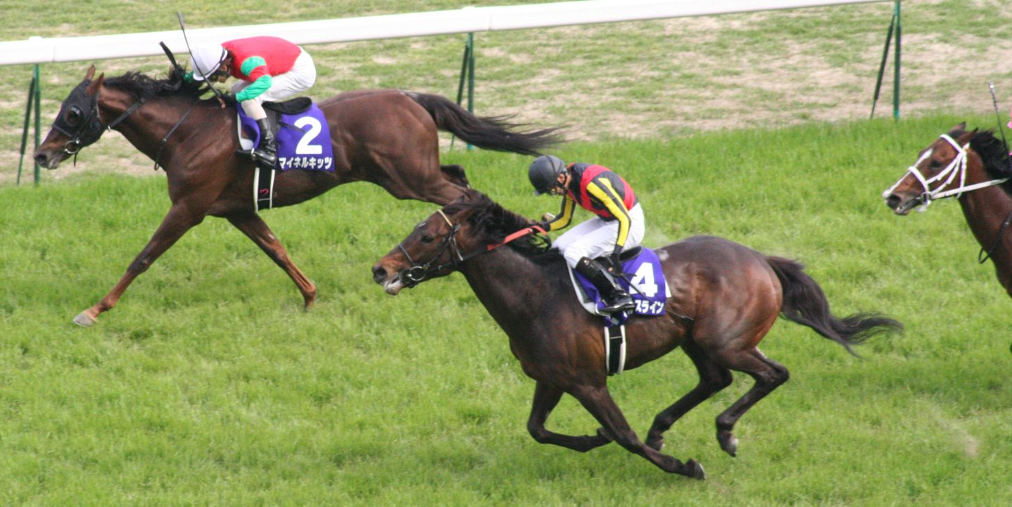 The 139th Tenno Sho (Kyoto Racecourse)